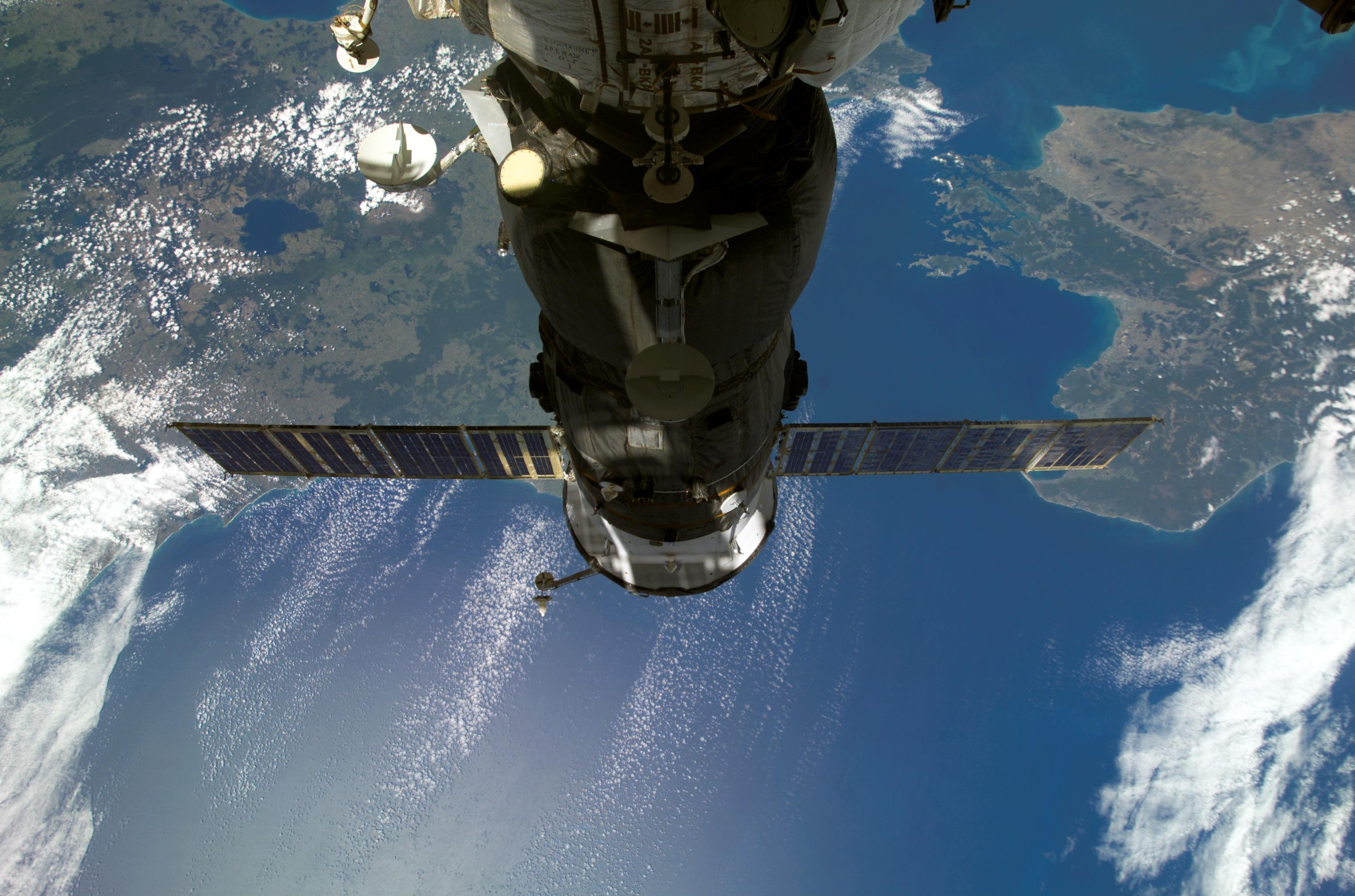 Progress M-62 seen from the International Space Station whilst docked.